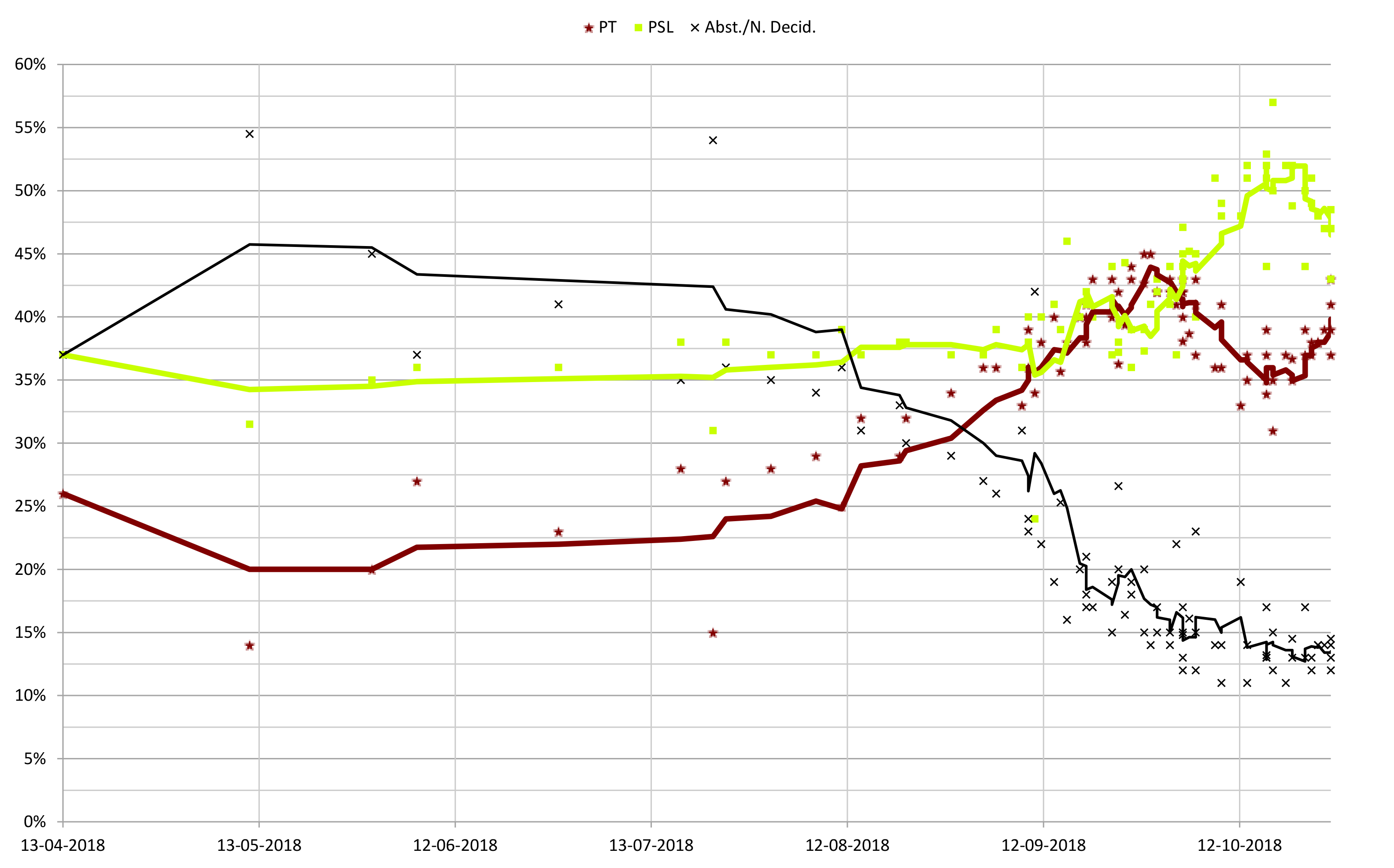 Graph showing 5 poll average trend lines of Brazilian opinion polls for the second round of presidential election between Fernando Haddad (PT) and Jair Bolsonaro (PSC) from April 2018 to the most recent one. Based on data at